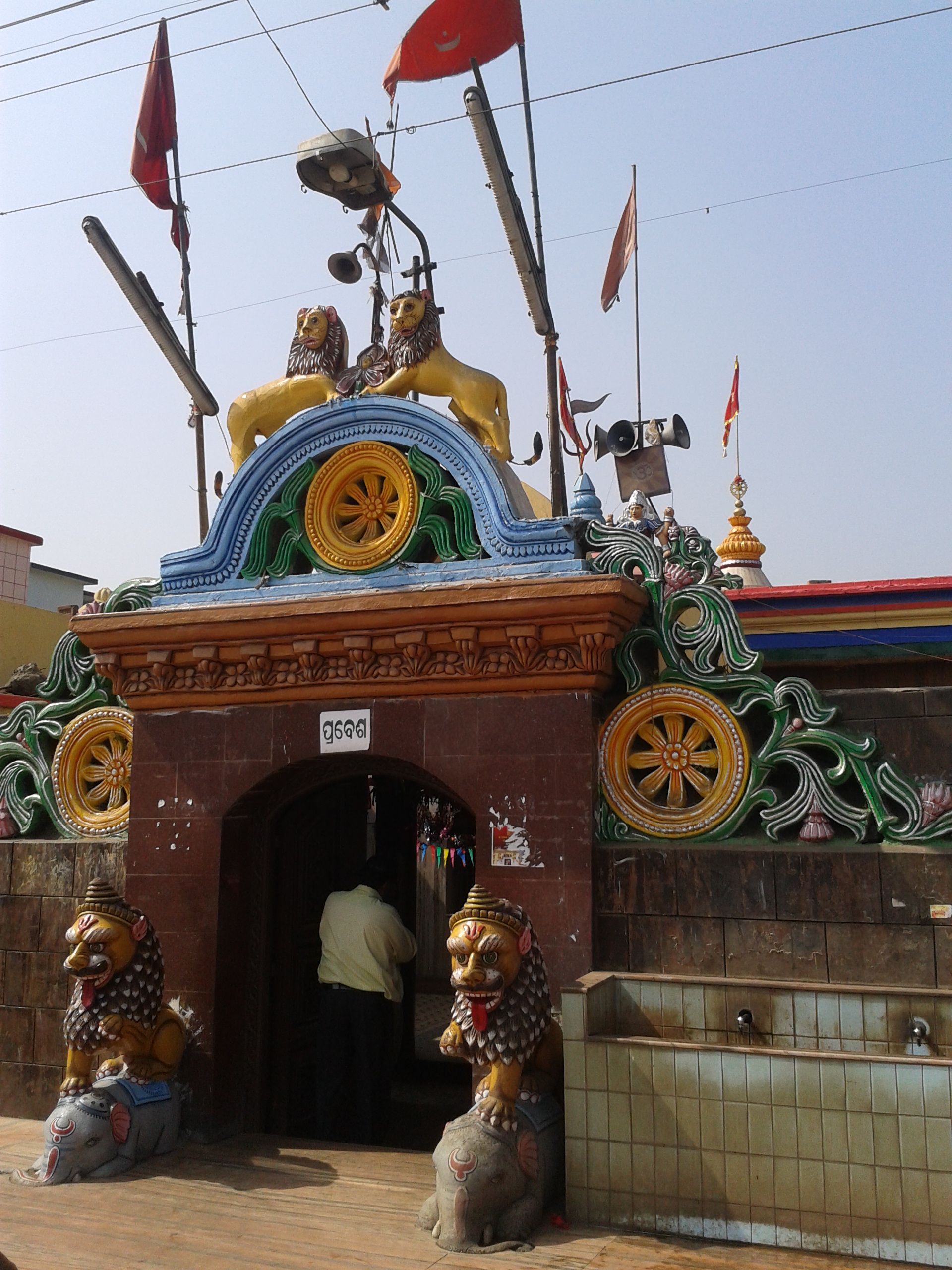 Katak chandi Temple, Cuttack, India